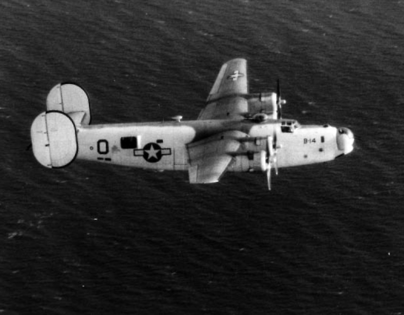 A U.S. Navy Consolidated PB4Y-1 Liberator from Patrol Bombing Squadron VPB-110 in flight in September 1944. VPB-110 was based at RAF Dunkeswell, Devon (UK).